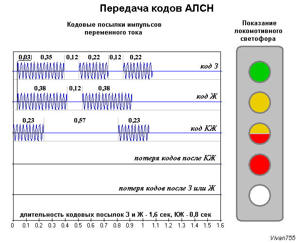 Codes of automatic locomotive signalisation ALSN of russian railways